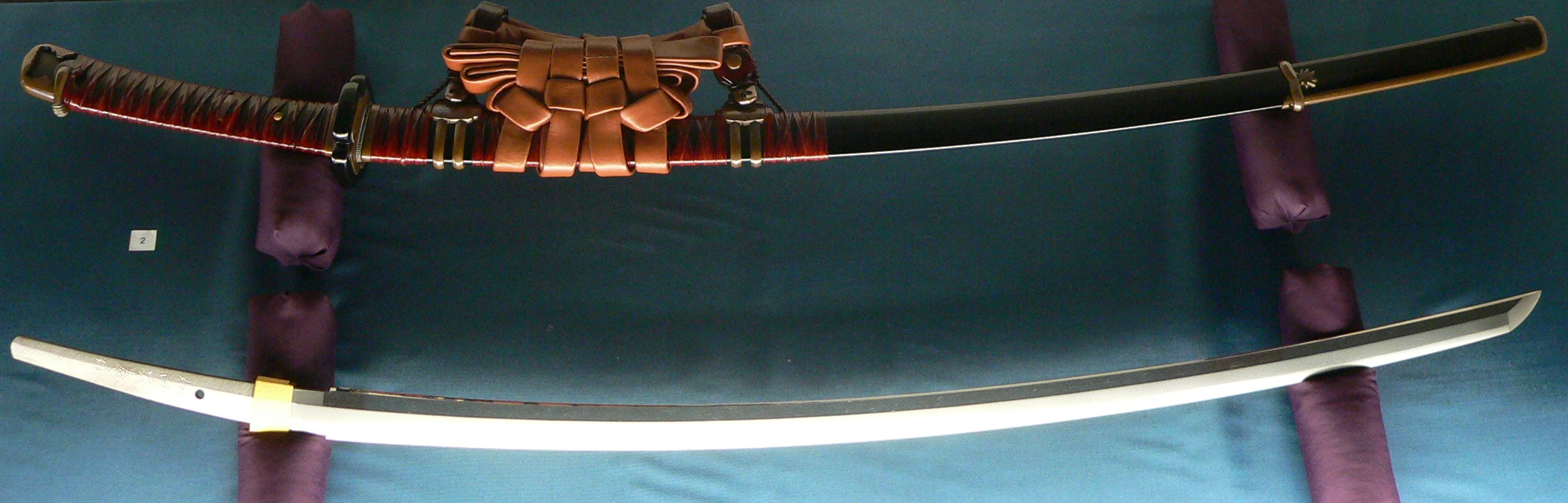 Tachi forged in 1997 by Matsuda Tsuguyasu, mounting koshirae type made in 1999 by Takeyama. Copy of a sabre of the end of the Heian era (11th century). Galley Dutta, Geneva, inv.2/1.